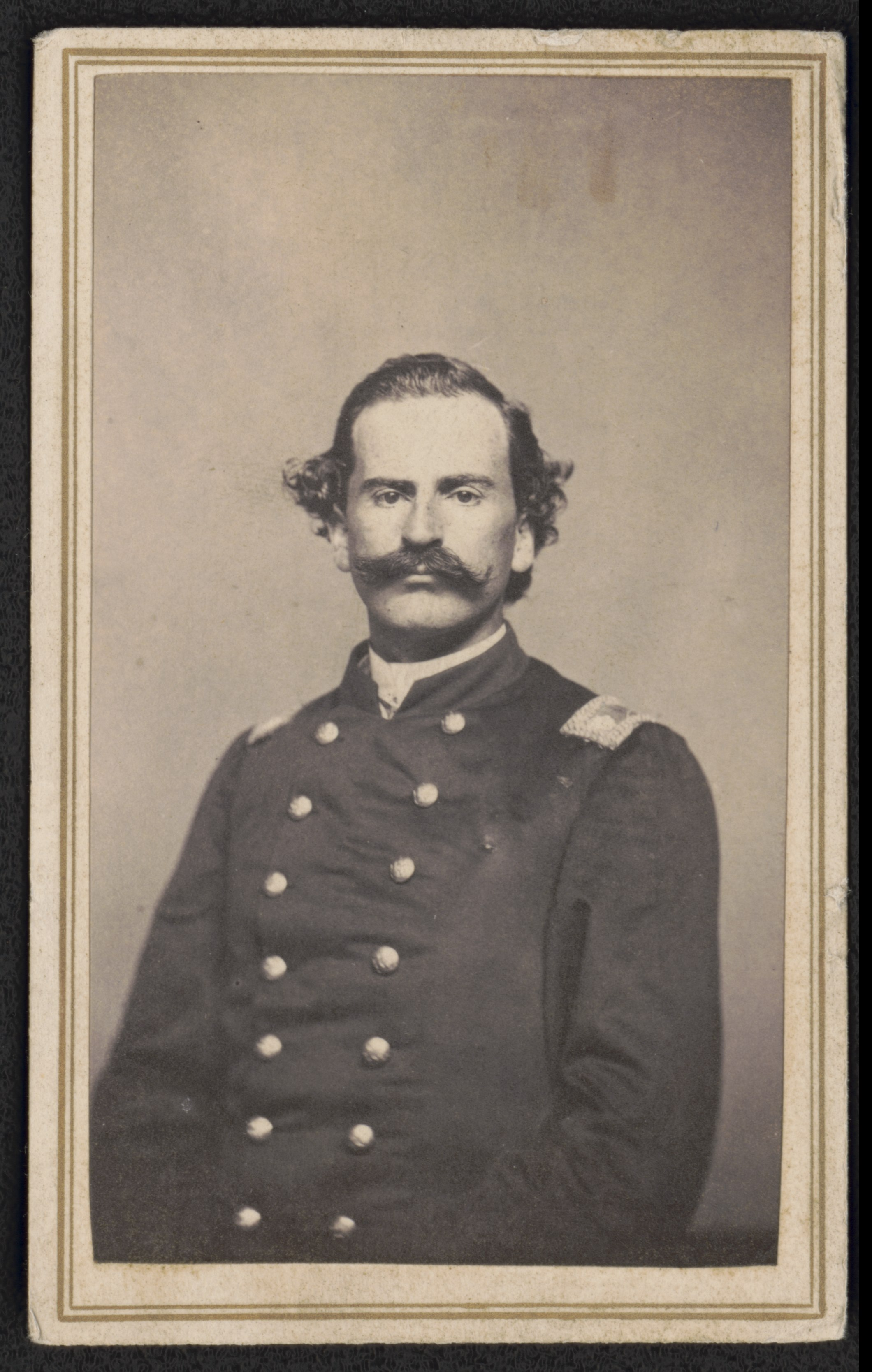 Title: Colonel William Alden Choate of Co. B, 38th Ohio Infantry Regiment, in uniform] / T.F. Saltsman, photographer, Cor. Union & College Sts., Nashville, Tenn Abstract/medium: 1 photograph : albumen print on card mount ; mount 11 x 6 cm (carte de visite format)